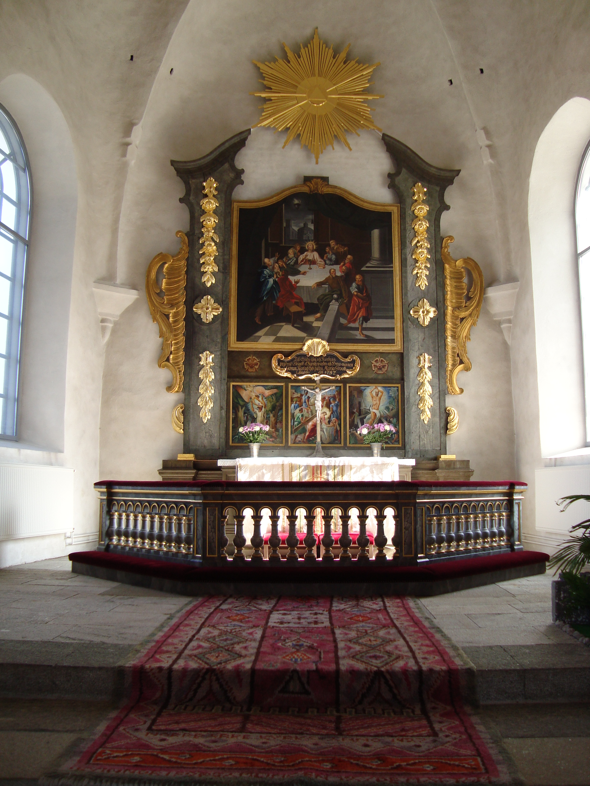 Norrbärke church, Smedjebacken, Sweden